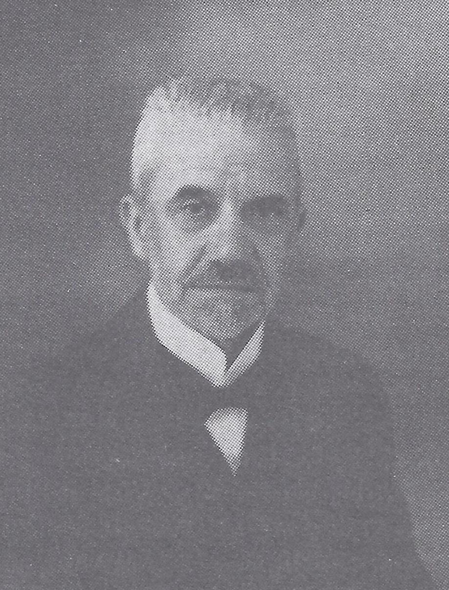 Bogdan Popović ( 20 December 1863 — 7 November 1944)